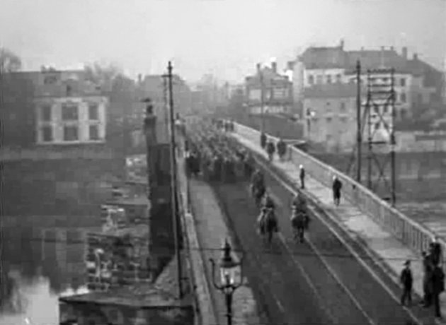 U.S. Army occupation troops from the 1st Infantry Division march across the Roman bridge, Trier, Germany, November 1918.